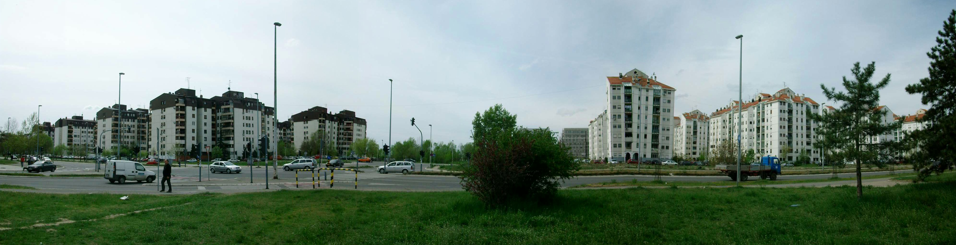 Panoramic view on Urban area Dr Ivan Ribar